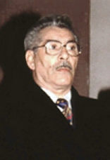 Ewald Hanstein, German Sinto and Survivor of Concentration Camp Mittelbau-Dora